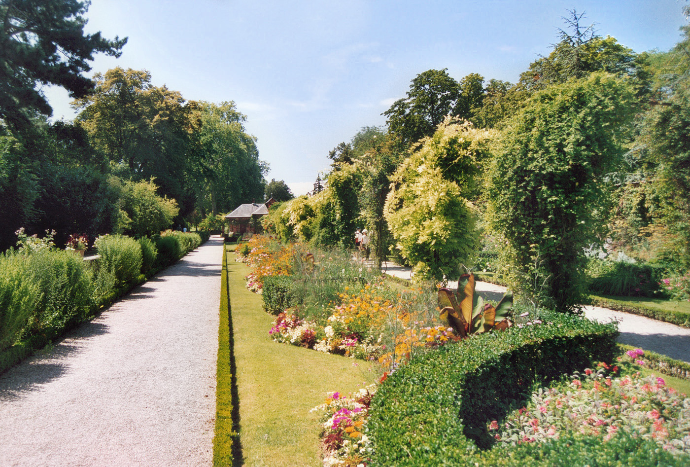 The Parc de Bagatelle, Paris